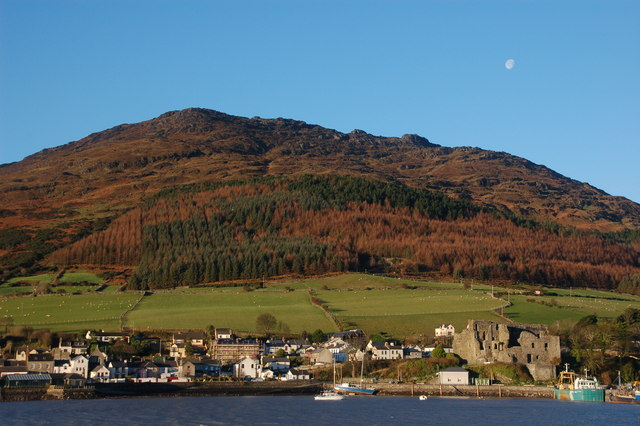 Carlingford is dominated by Slieve Foye and its (slightly) smaller sister Carlingford Mountain. This is the latter seen from the harbour. The white object, at top right, is the moon.